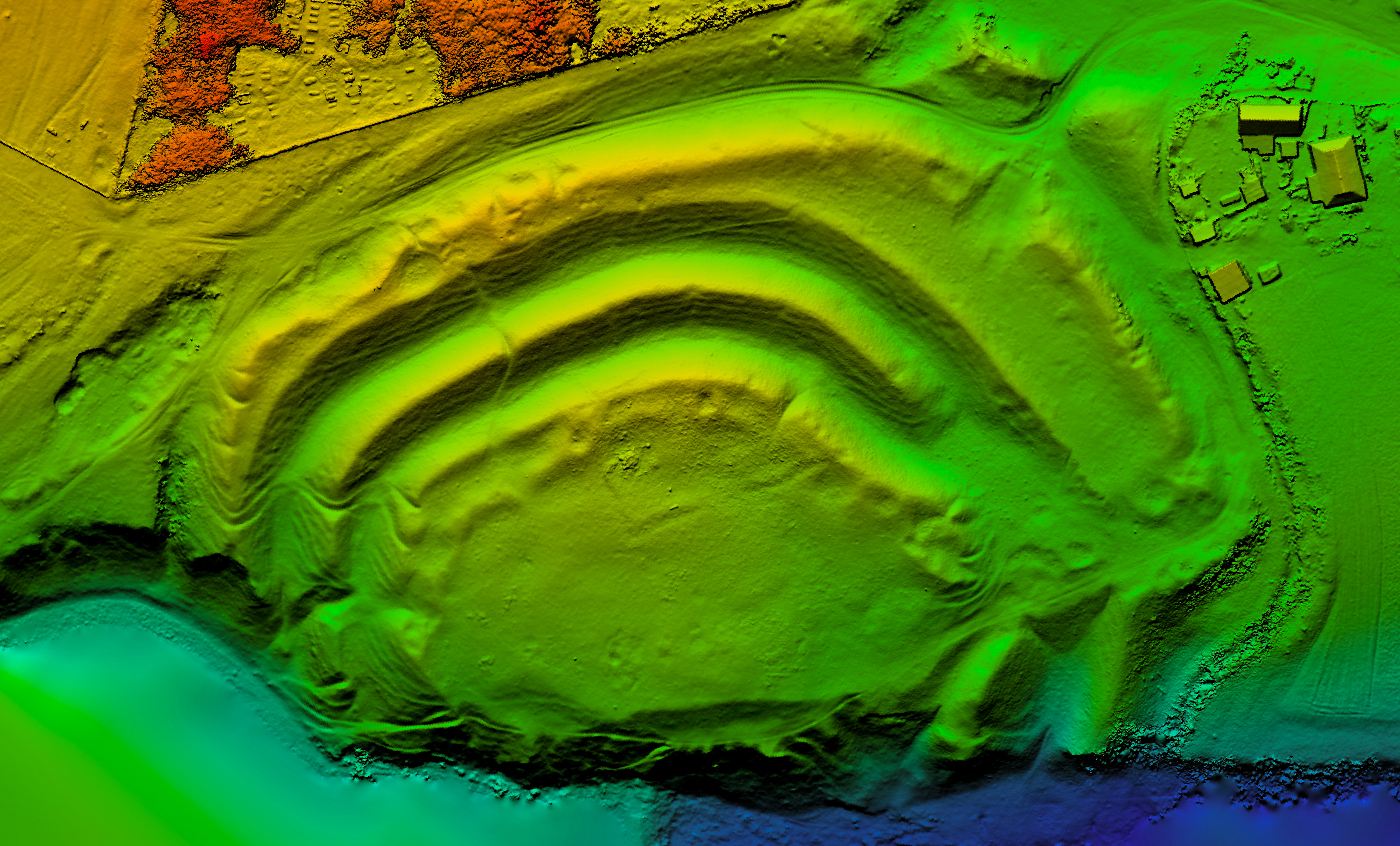 Digital terrain model created on the territory of the archeology monument of the fort of Kudin city, 9-13 centuries, Ukraine, Khmelnytsky region, Letychiv district